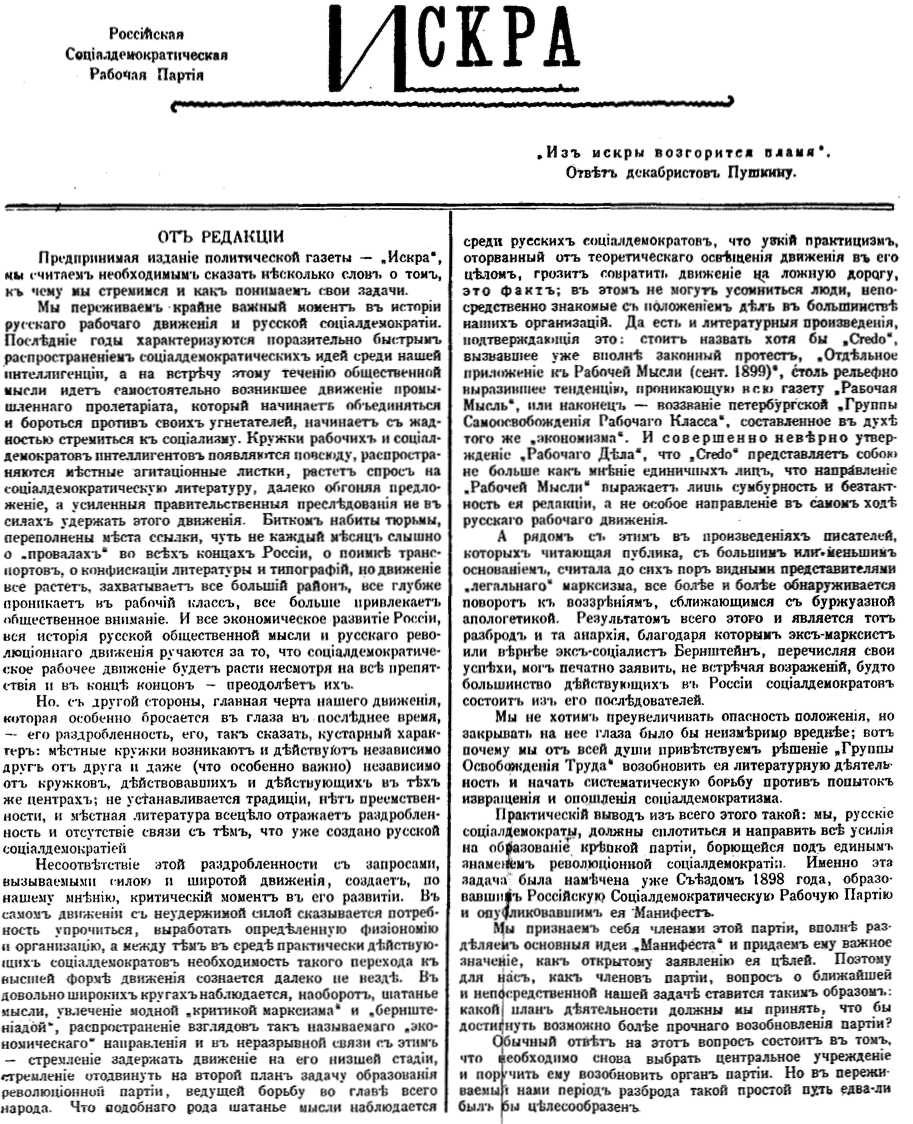 First page of Declaration of editorial staff Iskra